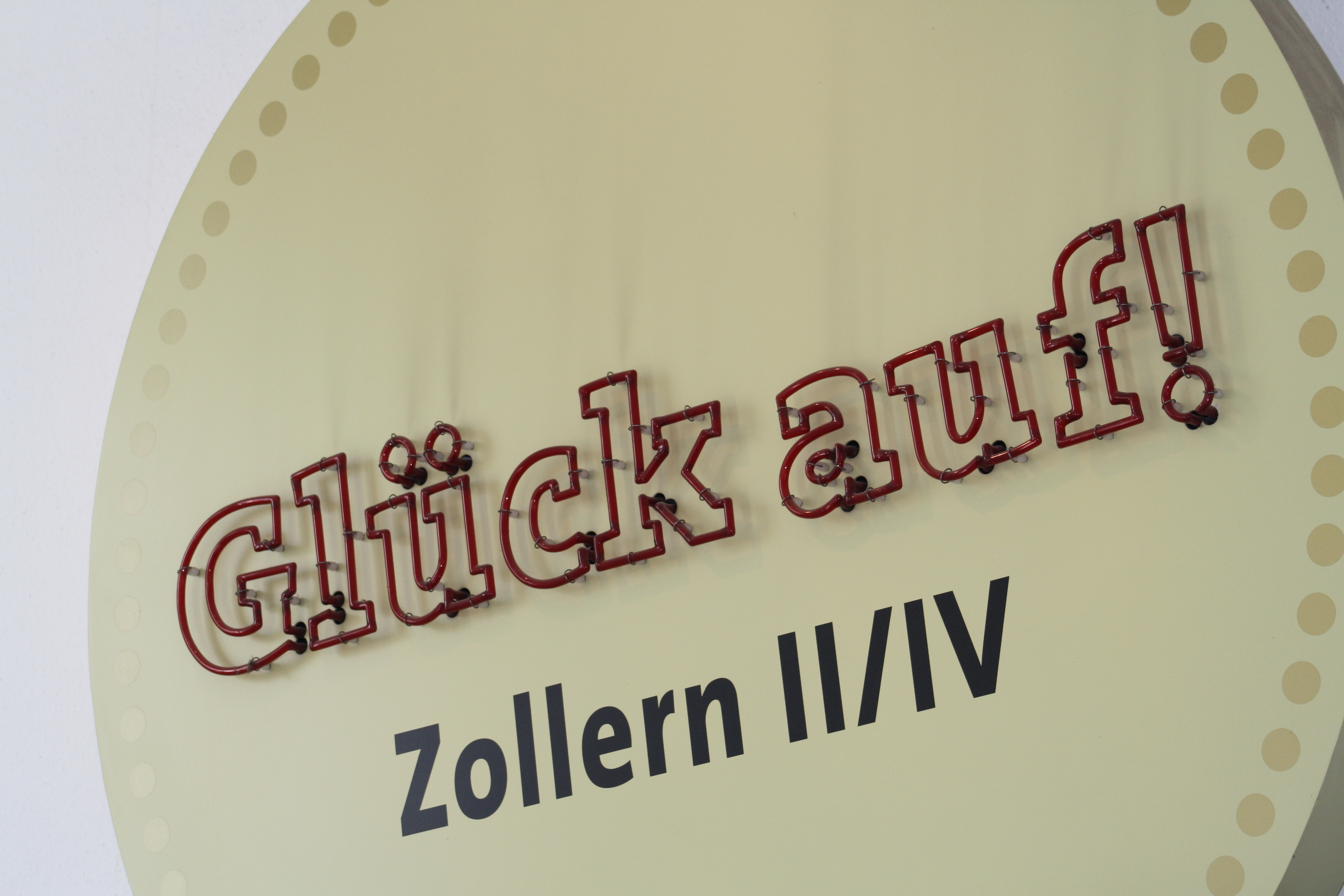 Illuminated at Zeche Zollern, Dortmund